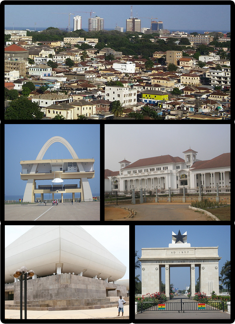 A montage of Accra images, made from multiple existing images